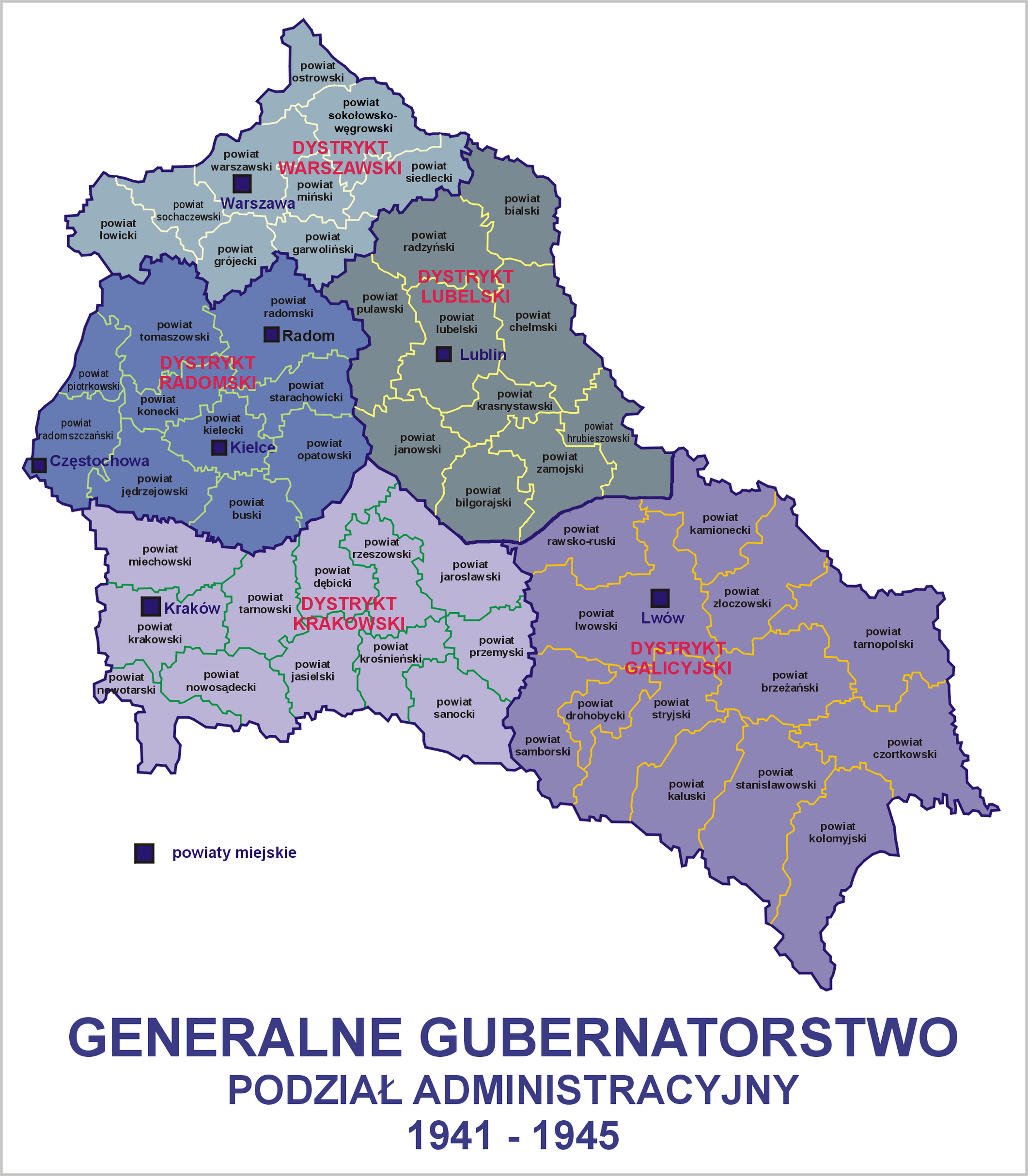 Administrative map of the Generalgouvernement (1941 -1945)